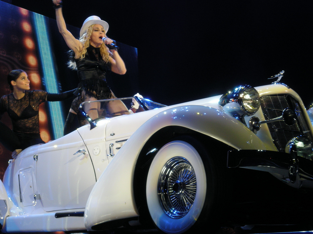 Madonna - Amsterdam ArenA - September 2, 2008